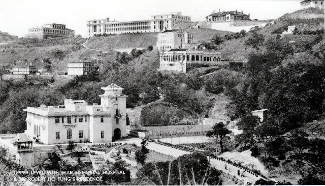 Picture post card entitled "Upper Level War Memorial Hospital & Sir Robert Ho Tung's Residence"